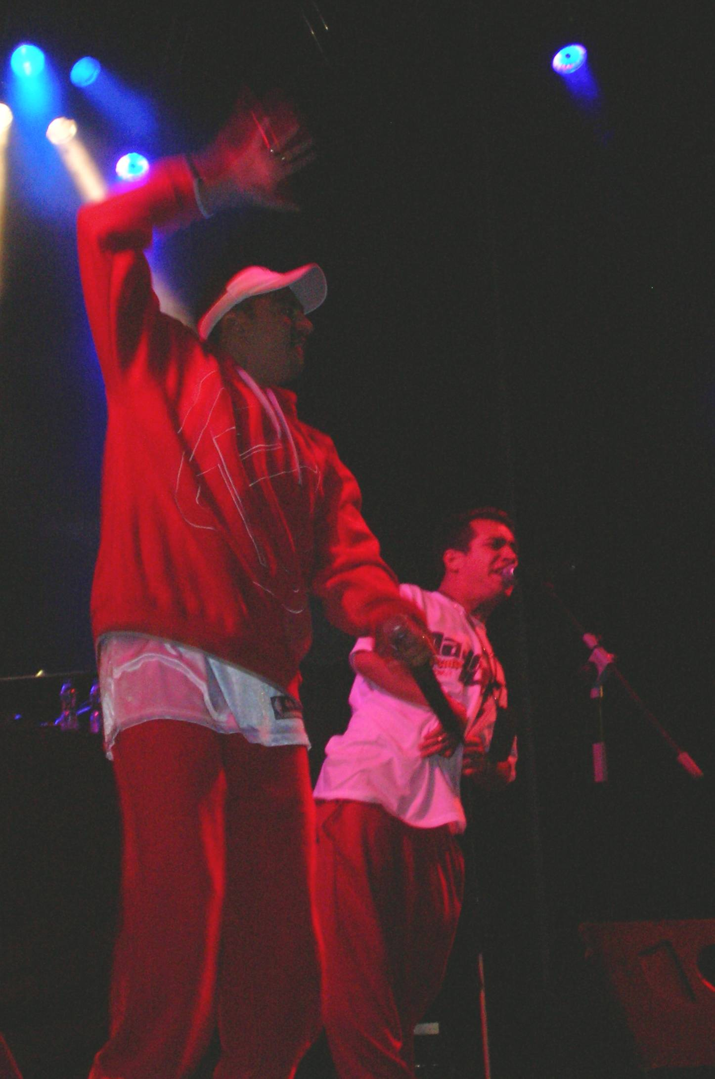 Gitano Antón and El Langui , from La Expcepción hip hop crew, acting live at the Bilbao Urban Musikaldia, at Vista Alegre bullring.